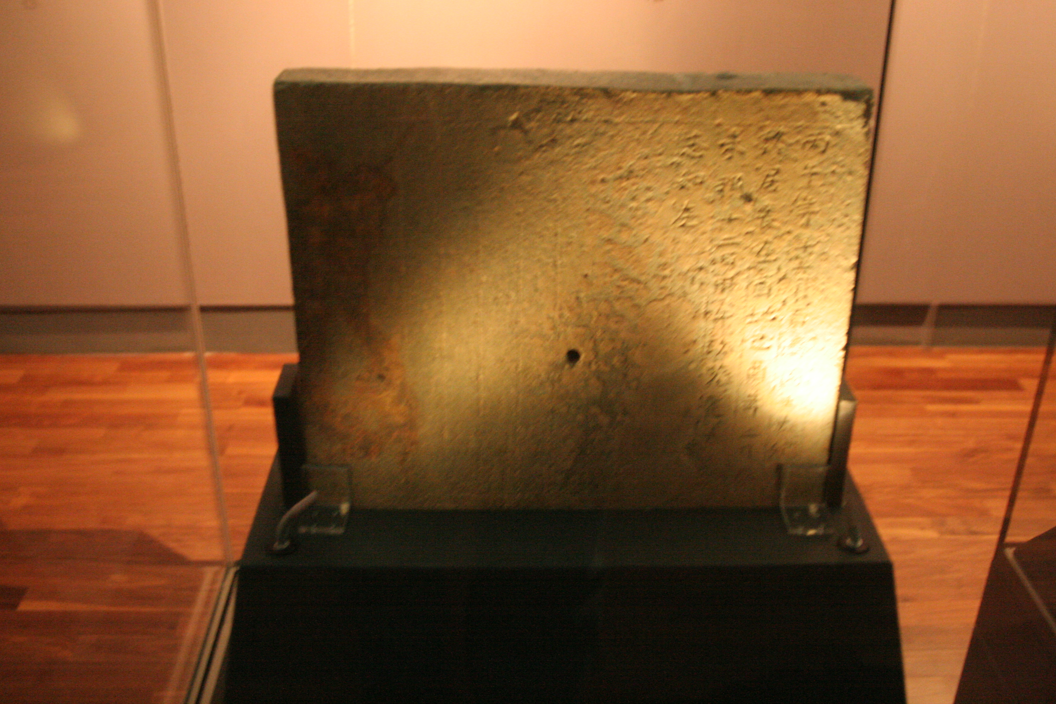 A rare stone epigraph from King Muryeong's tomb.